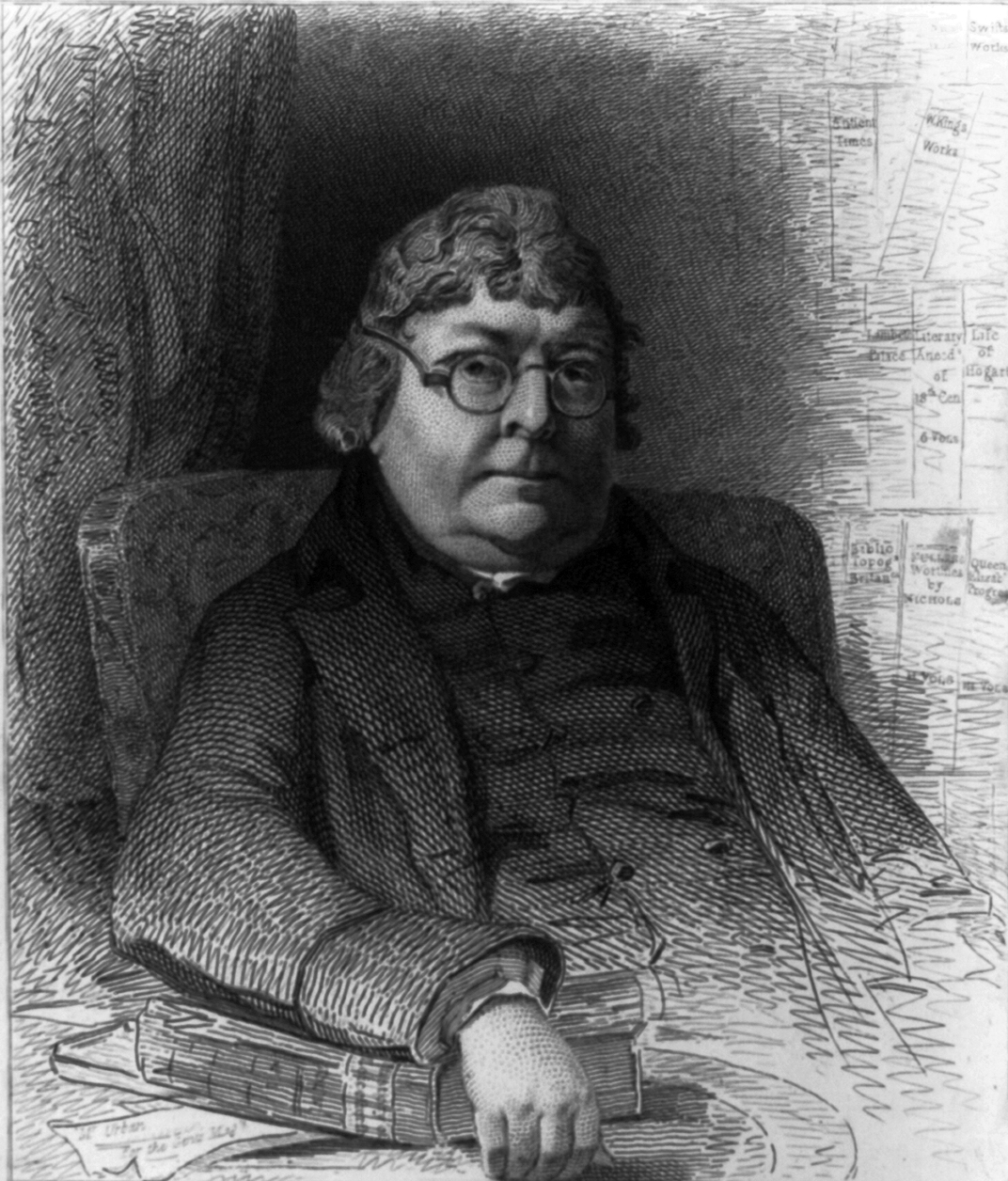 John Nichols, English printer and author. Original caption (cropped out) reads, "JOHN NICHOLS, Esq. F.S.A. of Lon., Edin. & Perth. Born at Islington Feb. 2 1744–5. Author of 'the History & Antiquities of the County of Leicester', in 7 Vols. fol. 1795 to 1812—also Author & Editor of several other Works on the Topography, Antiquities, and Ancient Legends of England."